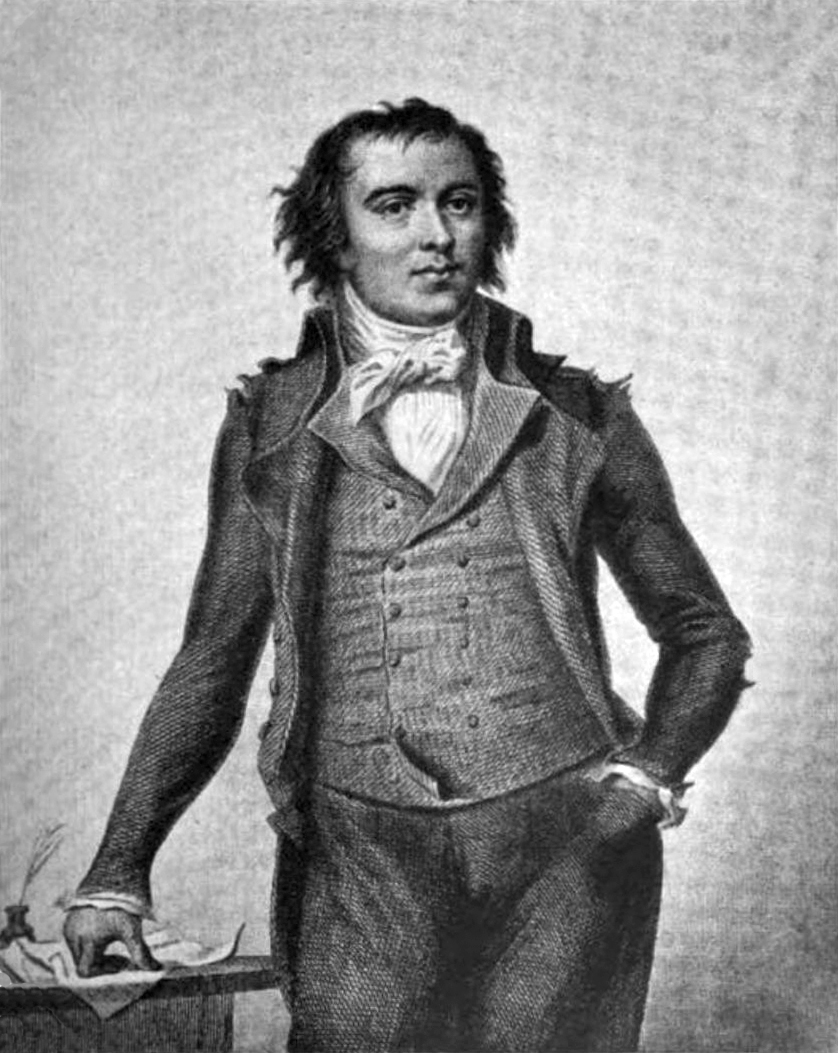 Pierre Victurnien Vergniaud, French orator and revolutionist.